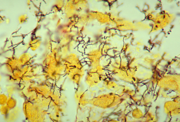 Histopathology of Treponema pallidum spirochetes using a modified Steiner silver stain. Obtained from the CDC Public Health Image Library. Image credit: CDC/Dr. Edwin P. Ewing, Jr. (PHIL #836), 1986.